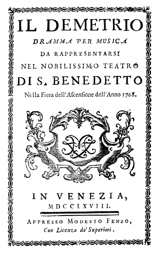 Antonio Gaetano Pampani - Demetrio - titlepage of the libretto - Venice 1768